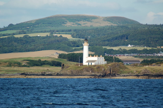 Turnberry Point lighthouse. Turnberry Point with Mochrum Hill in background, taken from PS Waverley